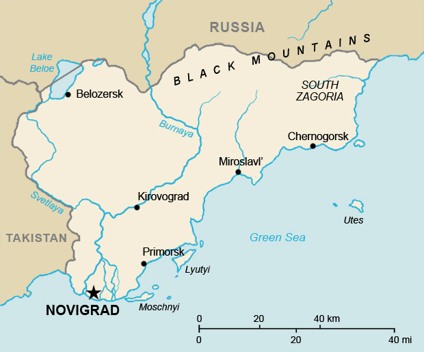 ARMA 2 Chernarus factbook map